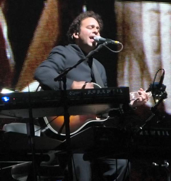 Jon Carin performing with Roger Waters in Toronto, on July 14th, 2007